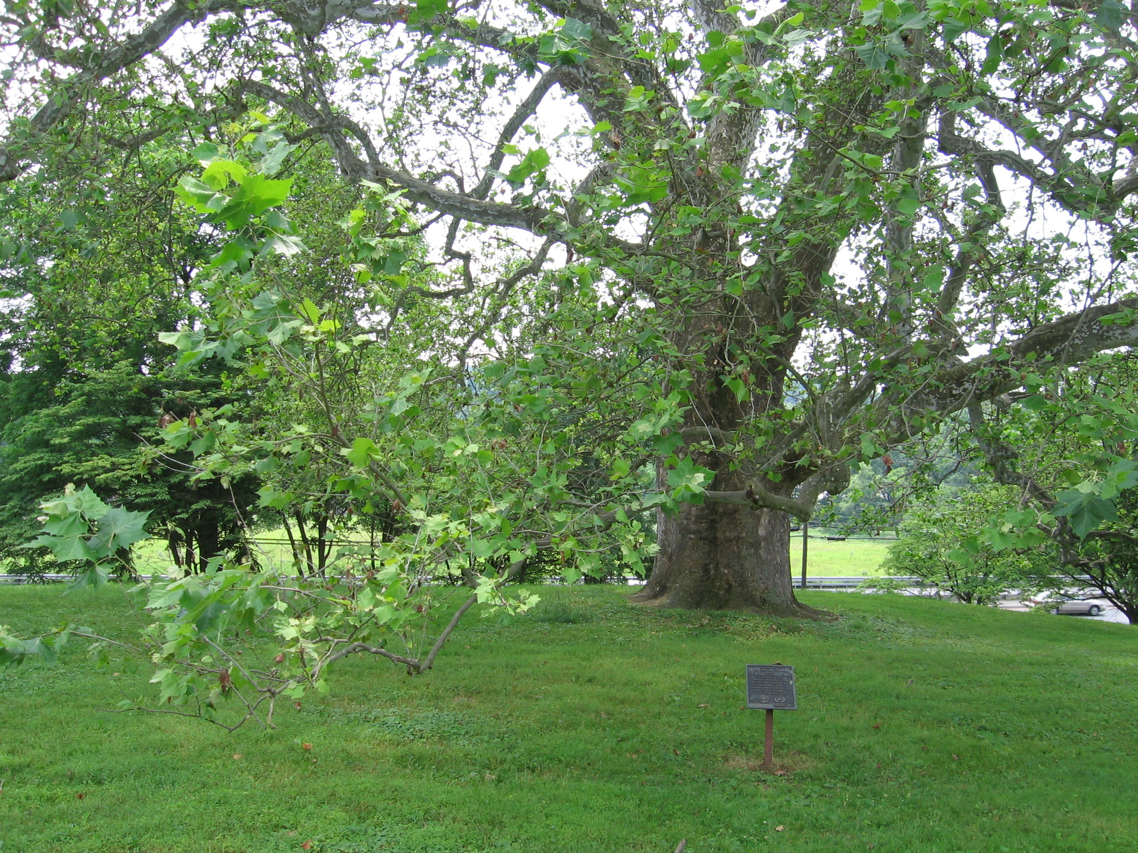 Bicentennial sycamore tree, Brandywine Battlefield, Chadds Ford PA